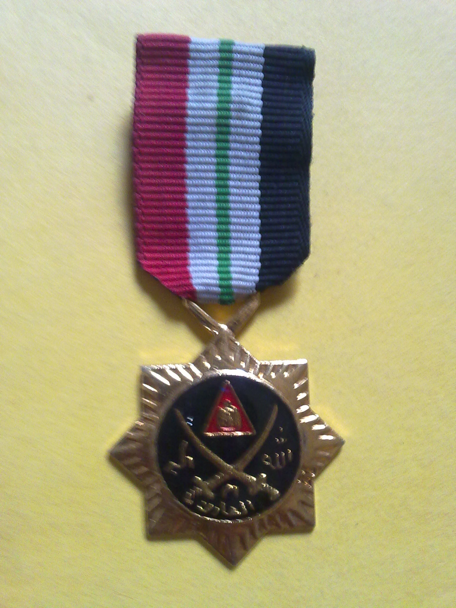 medal of um almaarek